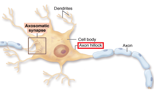 Axons originate from the 'axon hillock' which in Soma